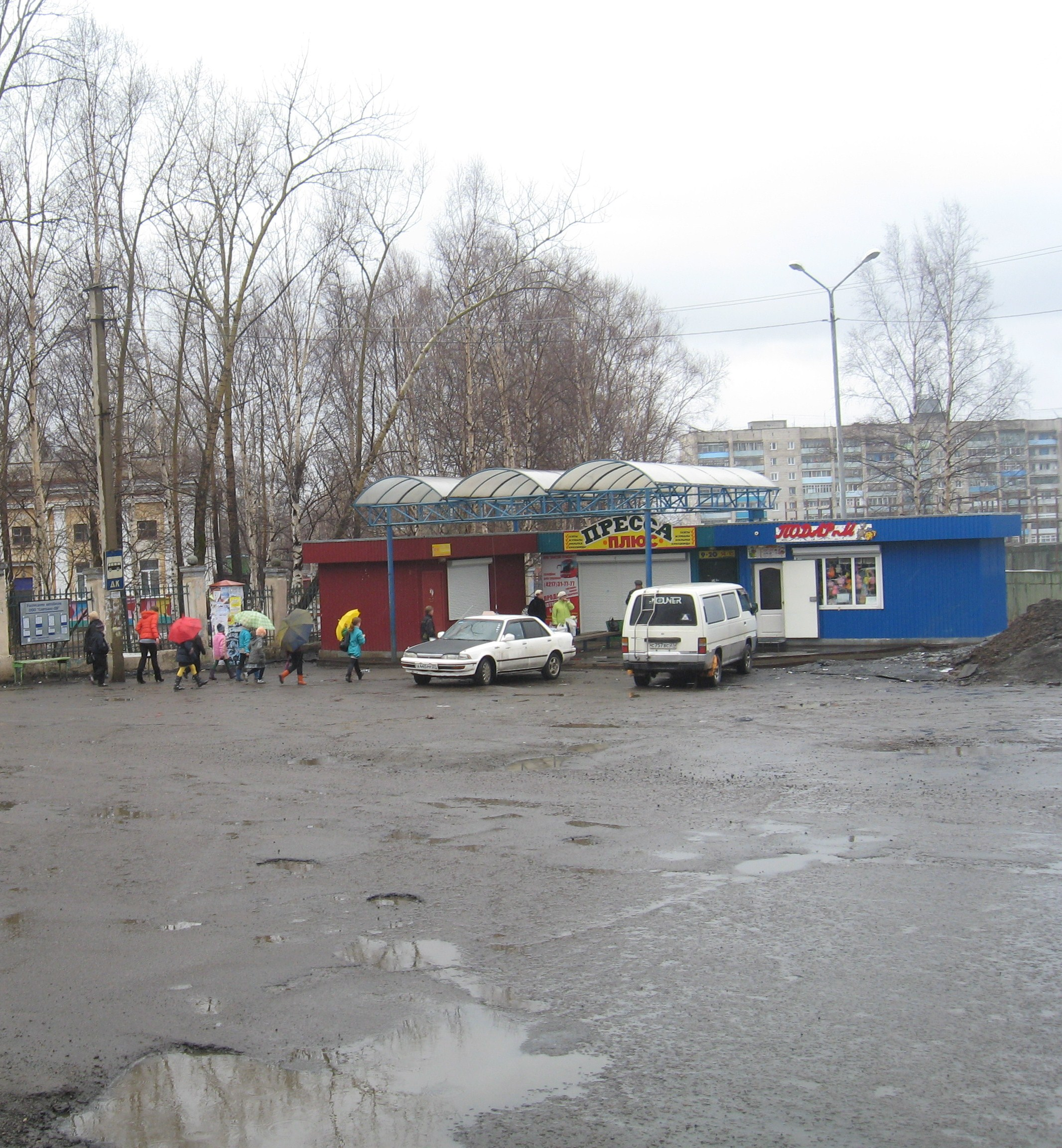 The Sity of Sovetskaya Gavan. Bus stop "Dom Kultury" (The House of Culture)